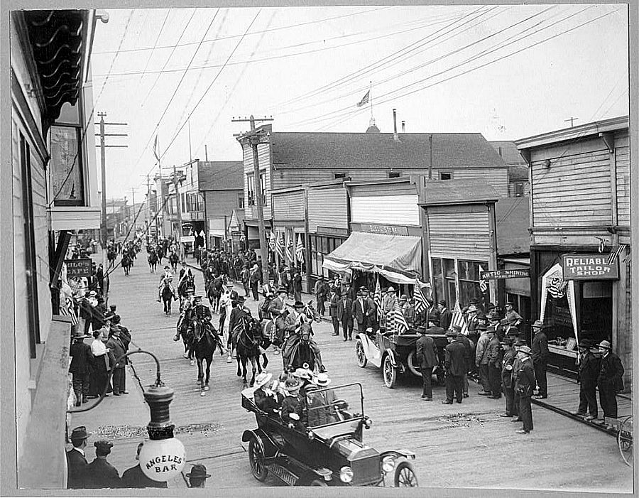 4th of July parade, Nome - Alaska 1916